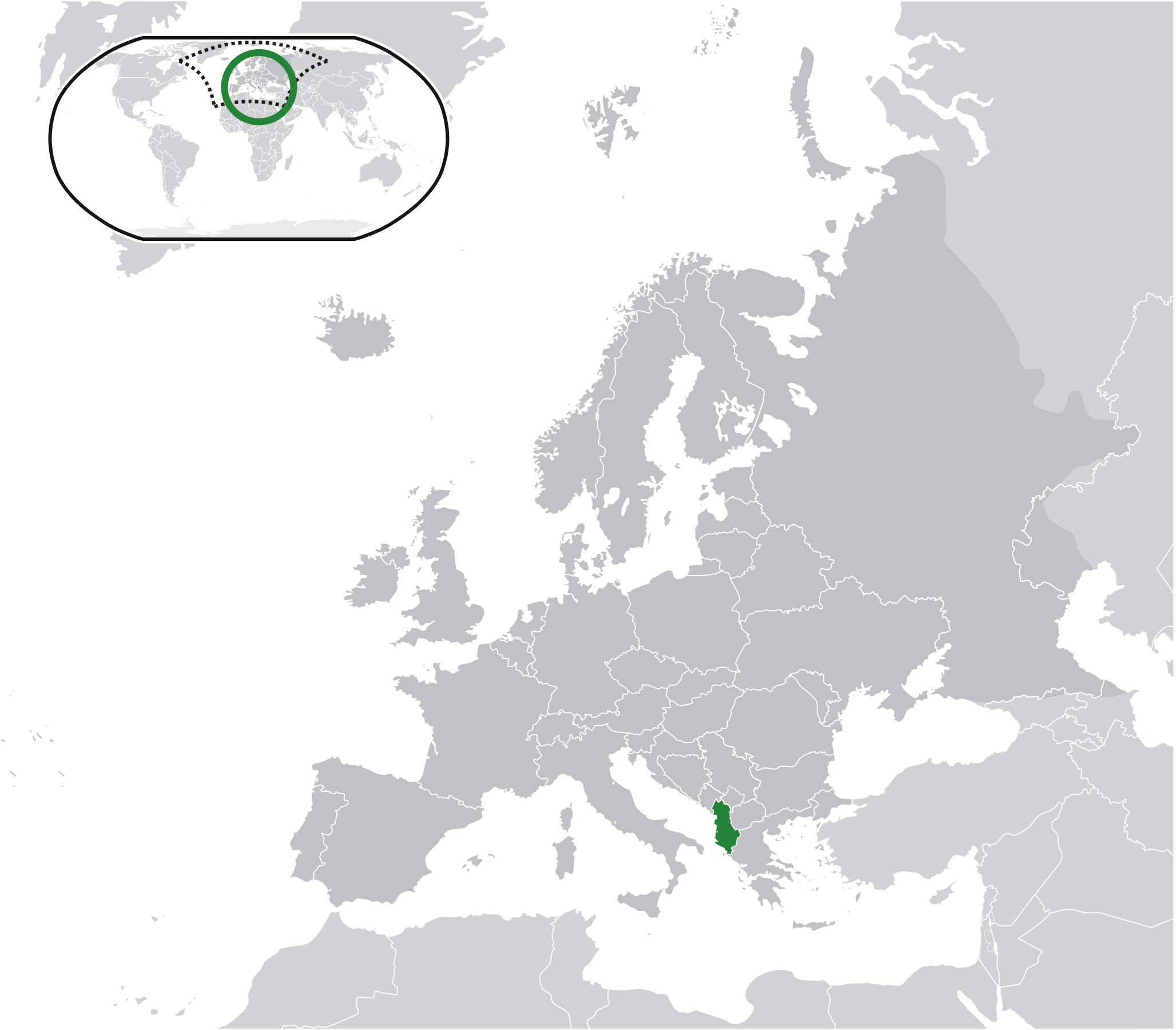 Albania (dark green) / Europe (dark grey); inspired by and consistent with general country locator maps by User:Vardion, et al